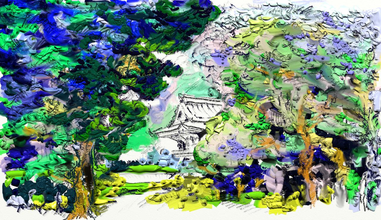 Painting of a temple using ArtRage, showing strokes done using different pen types.